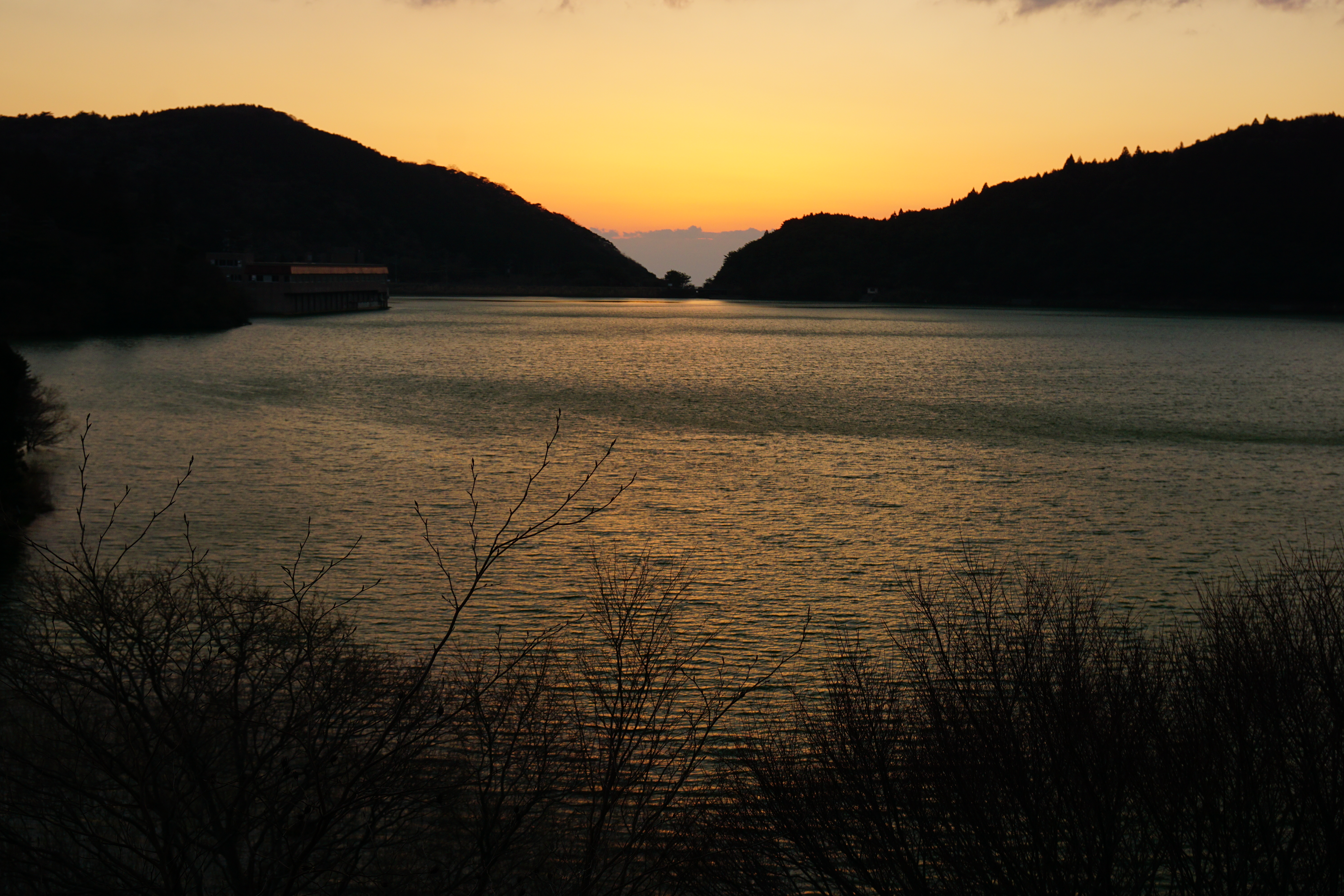 The scene of the evening in Lake Oshidori from Ryokan Azumaen in Unzen, Nagasaki prefecture, Japan.